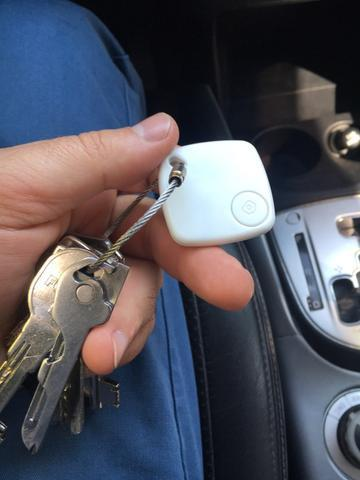 This is an example of a gps key finder.